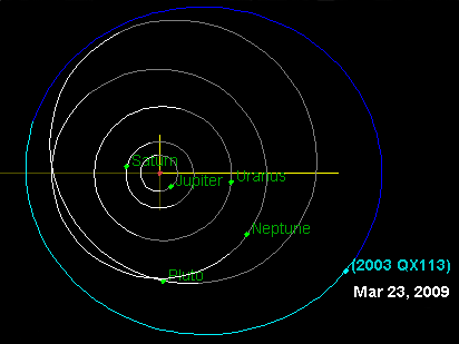 The orbit of 2003 QX113 compared to Pluto and Neptune. This dwarf planet candidate was discovered when near aphelion.